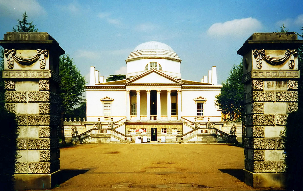 Chiswick House: front elevation through the gateway.